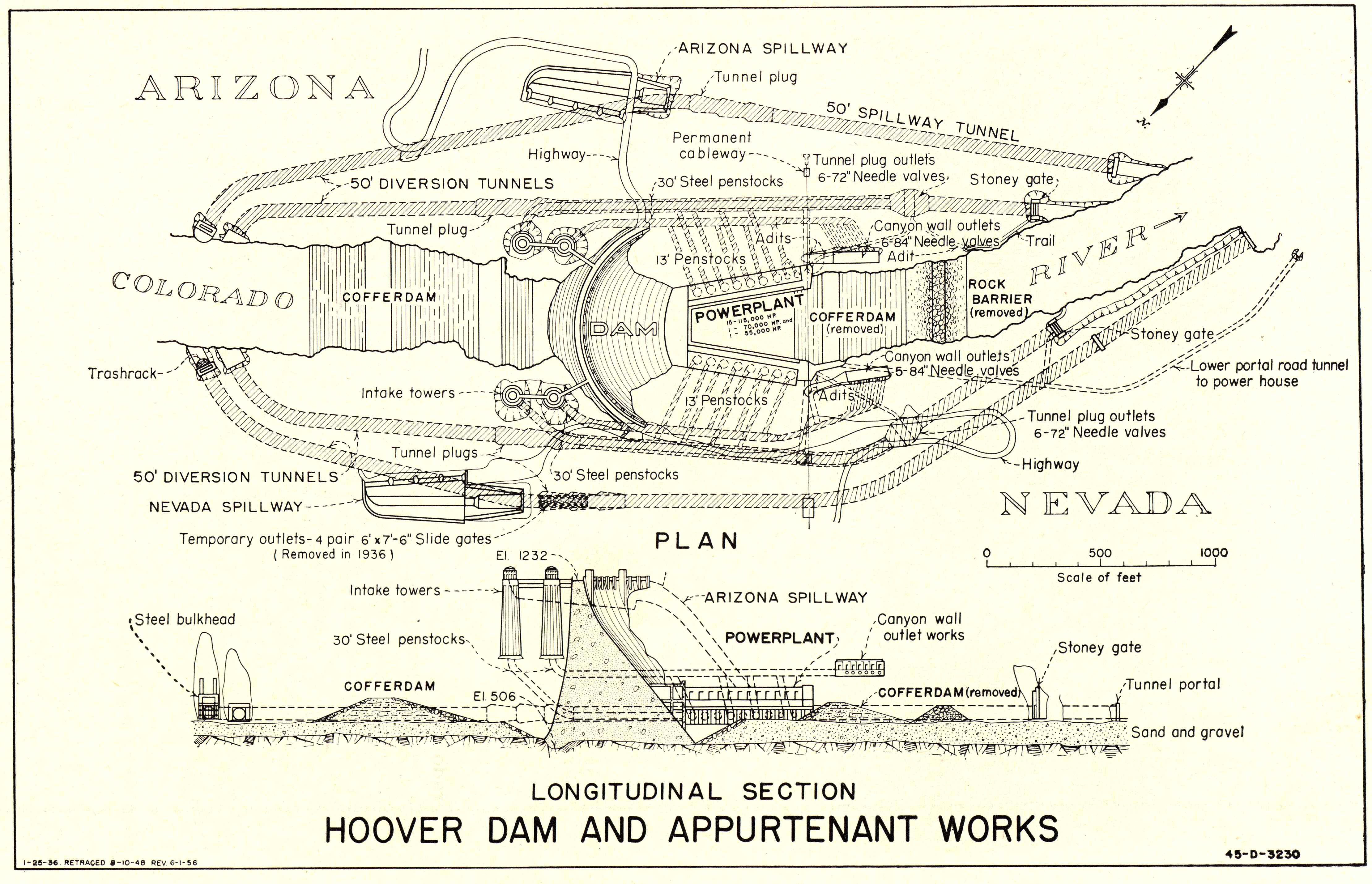 Summary of Hoover Dam works, showing altitude of various tunnel components.